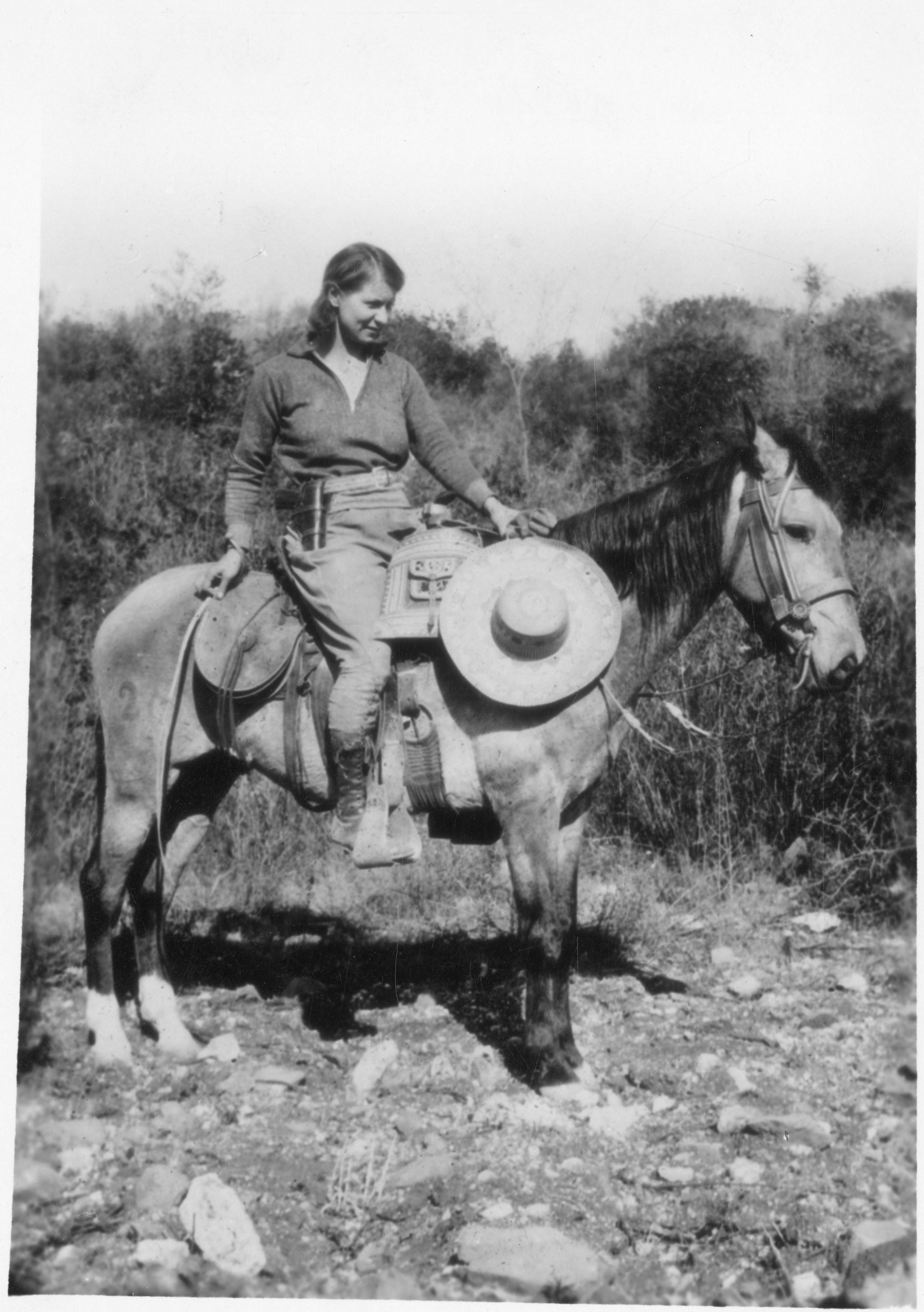 Subject: Reh, Emma (1896-1982) Science Service Type: Black-and-white photographs Topic: Journalism, Scientific Local number: SIA Acc. 90-105 [SIA2009-2150] Summary: As she was growing up in Washington, D.C., Emma Reh (1896-1982) contributed many prize-winning essays and drawings to local newspapers, foreshadowing a lifelong interest in communication. She joined the staff of Science Service around 1924 and continued as a frequent contributor throughout the 1930s, reporting on archeological excavations in Mexico (this image shows her in Oaxaca), as well as the social and political situation in that country. In 1935, she worked for the Soil Conservation Service and later for the United Nation's Food and Agriculture Organization, writing about food consumption and distribution problems Cite as: Acc. 90-105 - Science Service, Records, 1920s-1970s, Smithsonian Institution Archives Persistent URL: Repository:Smithsonian Institution Archives View more collections from the Smithsonian Institution.